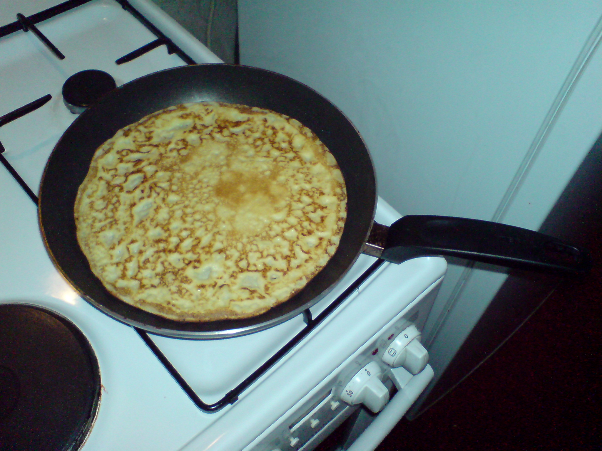 Pancake